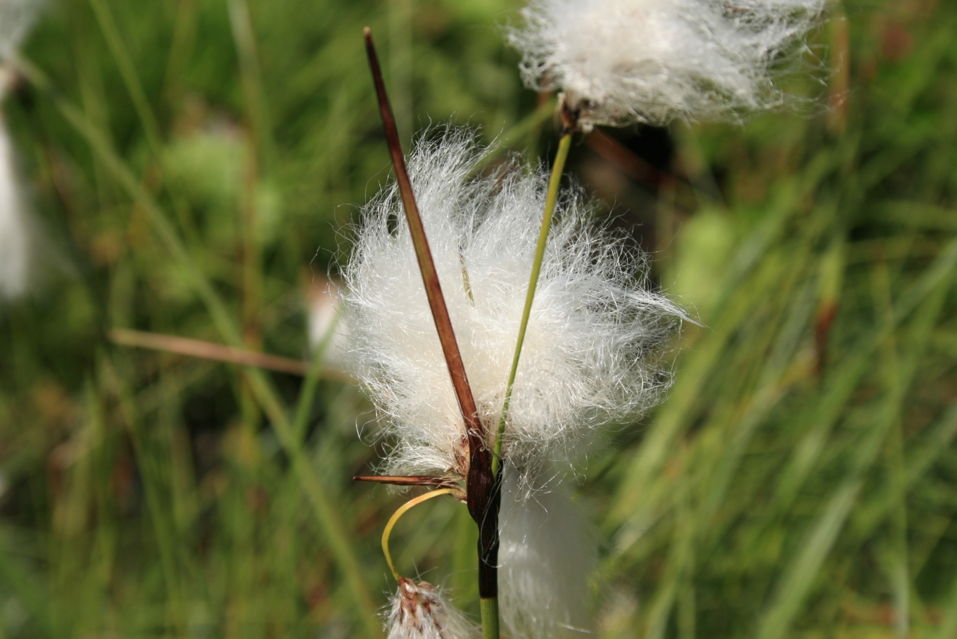 Eriophorum latifolium: Seed-wool. Botanical Garden, Århus, Denmark.